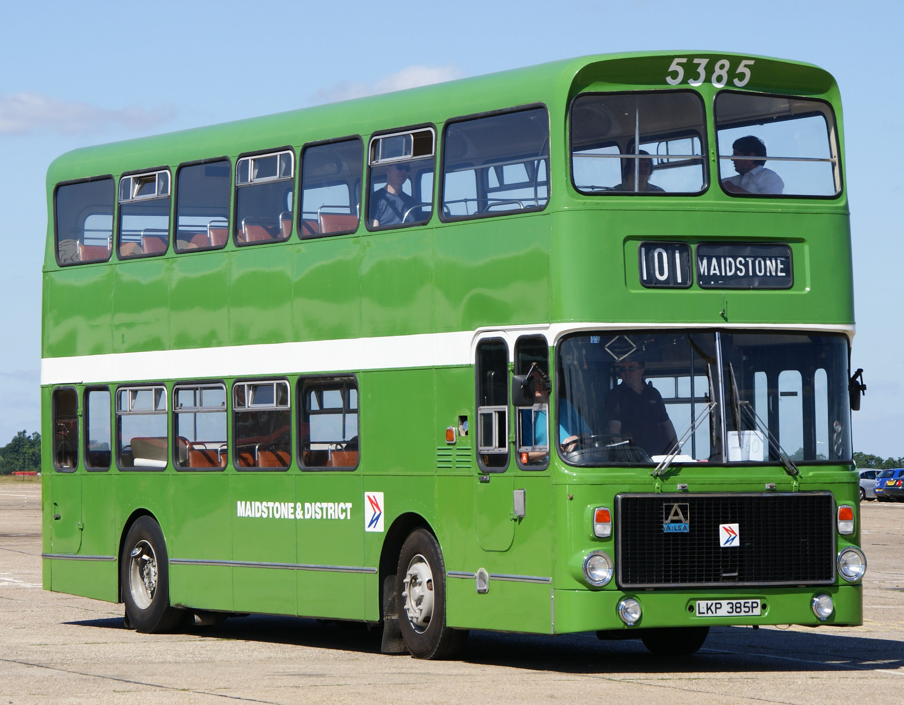 Preserved Maidstone & District bus 5385 (reg. LKP 385P), a 1975 Volvo Ailsa B55 double-decker with Alexander AV bodywork, pictured at the 2010 North Weald bus rally. M&D bought 5 such vehicles in December 1975 as a double-decker comparison trial for the National Bus Company, alongside MCW Metropolitans and Bristol VRT/3's. This was the last of the batch, which was numbered 5381 to 5385 (LKP 381-385P). The company opted for the Bristol, leaving the Ailsa's as non-standard in the fleet.